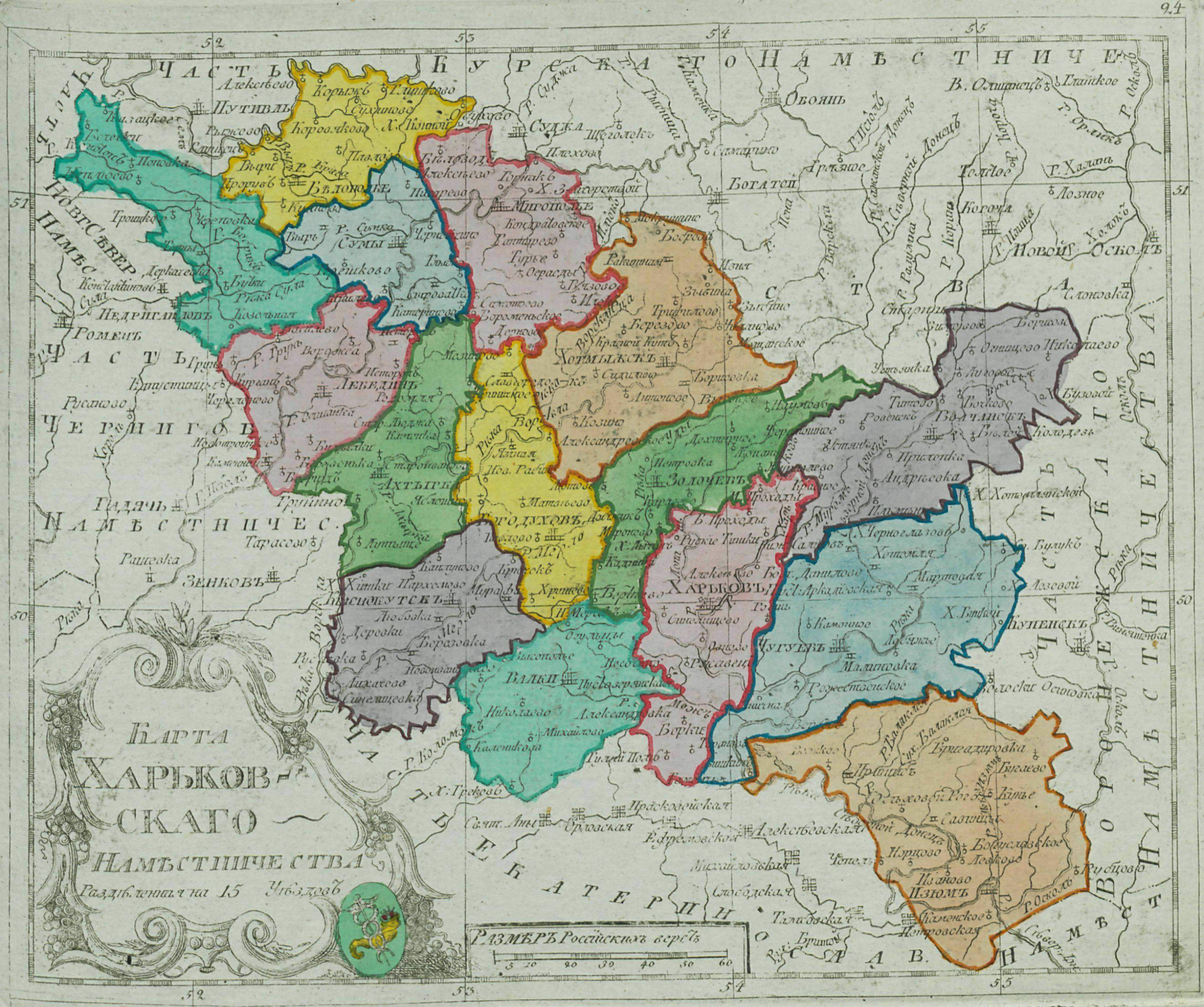 Small atlas of the Russian Empire (1792). Map of Kharkov Namestnichestvo (map 23).